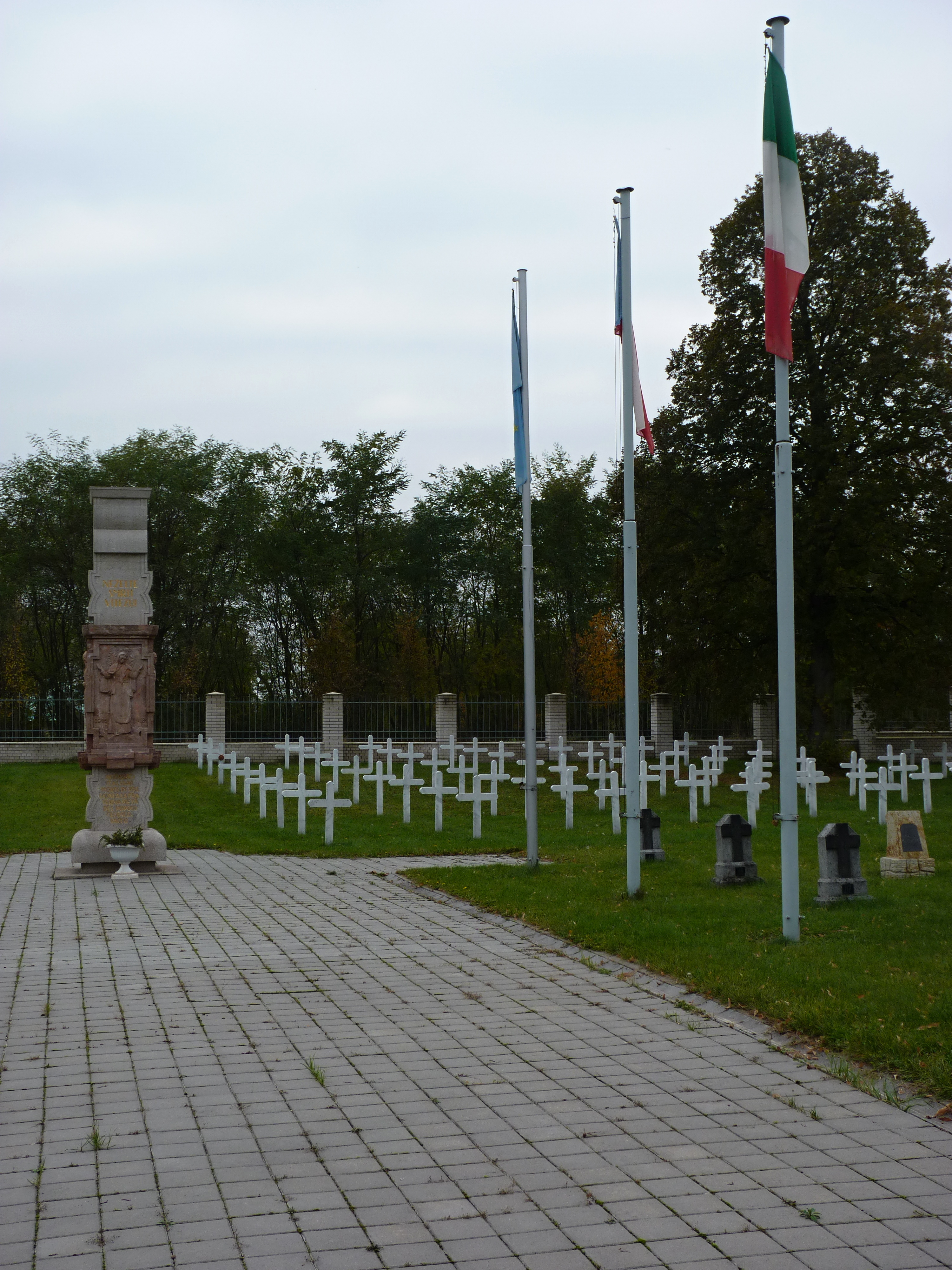 Italian military cemetery